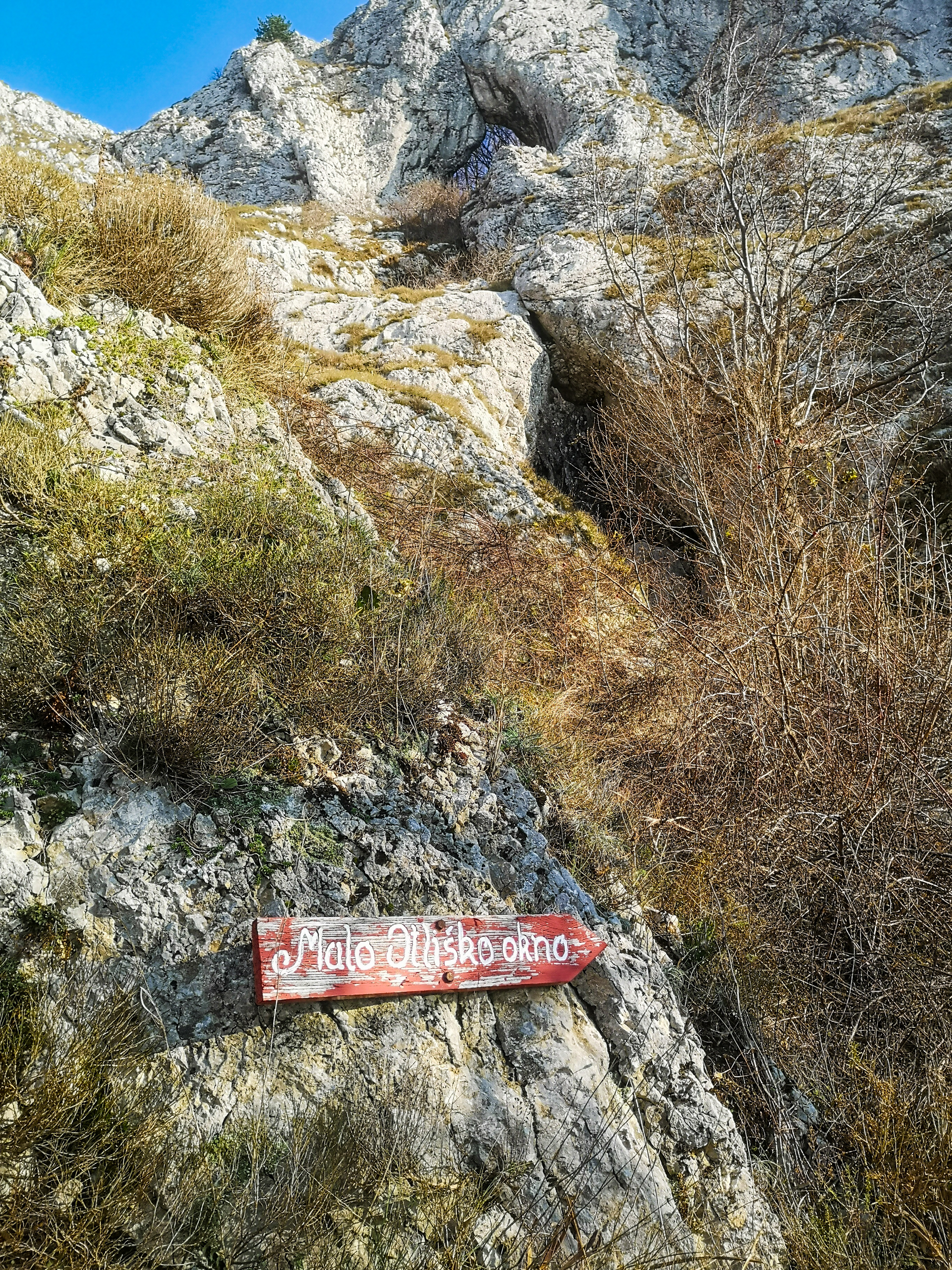 Small Otlica Window; above it, Big Otlica Window